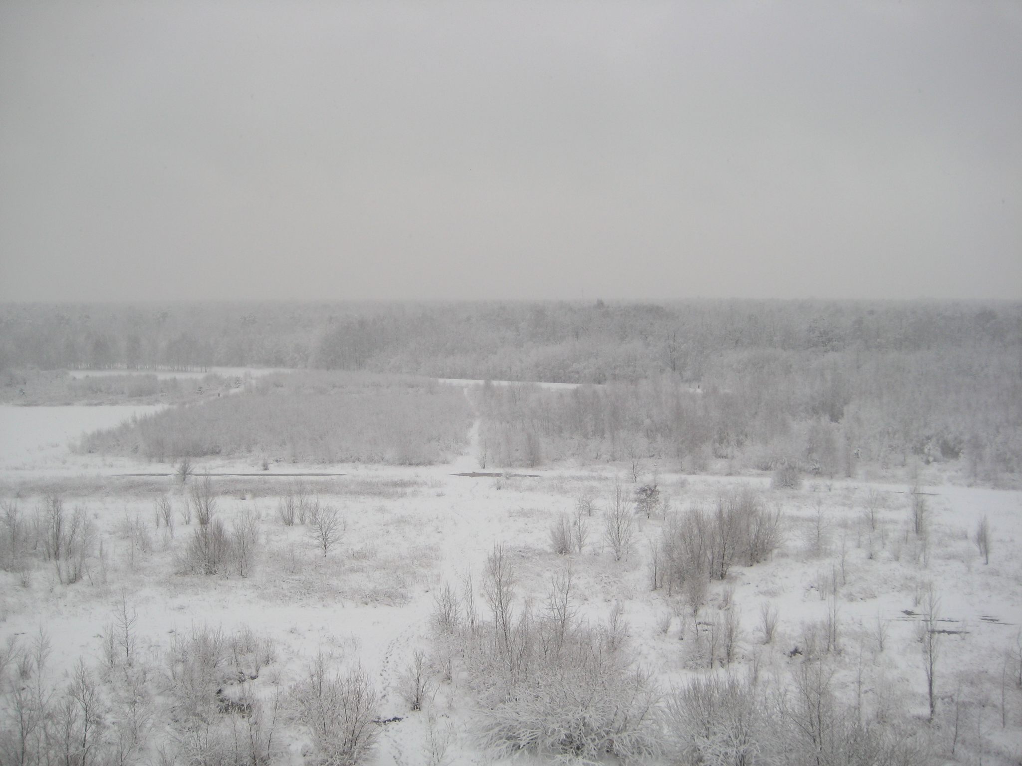 A view of snow-covered Kabaty Woods.